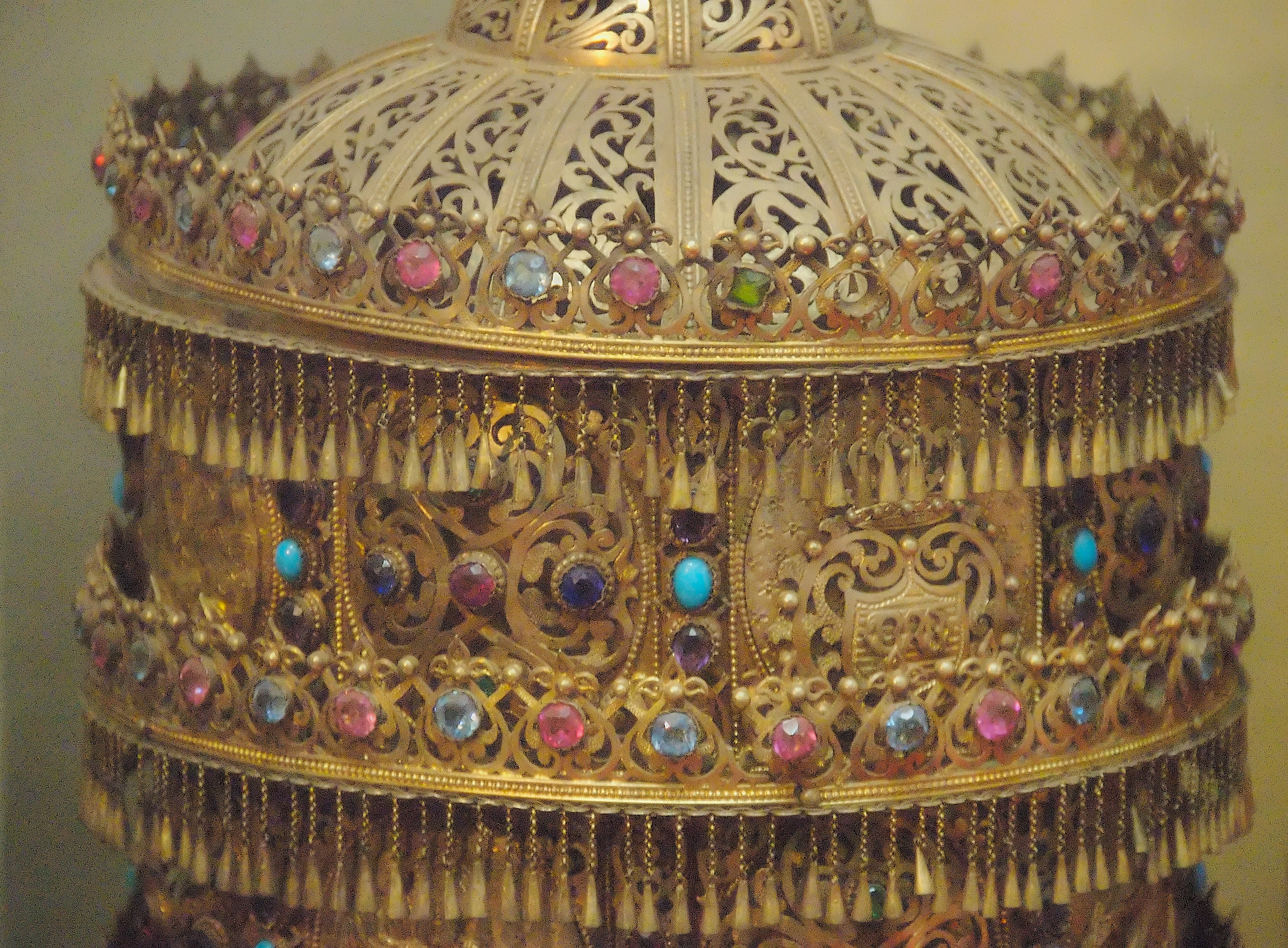 In the collection of the National Museum, Addis Ababa, Ethiopia. Taken without flash. I've complied with restrictions on the use of flash, and taken photos only when permitted by the museum.